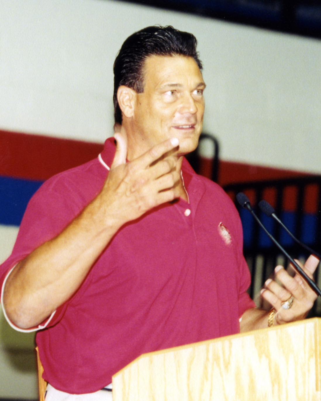 John Turney is the photogtspher (me). Taken in August 2002, in Canton, OH, at Press Conference for new Hall of Fame Class.